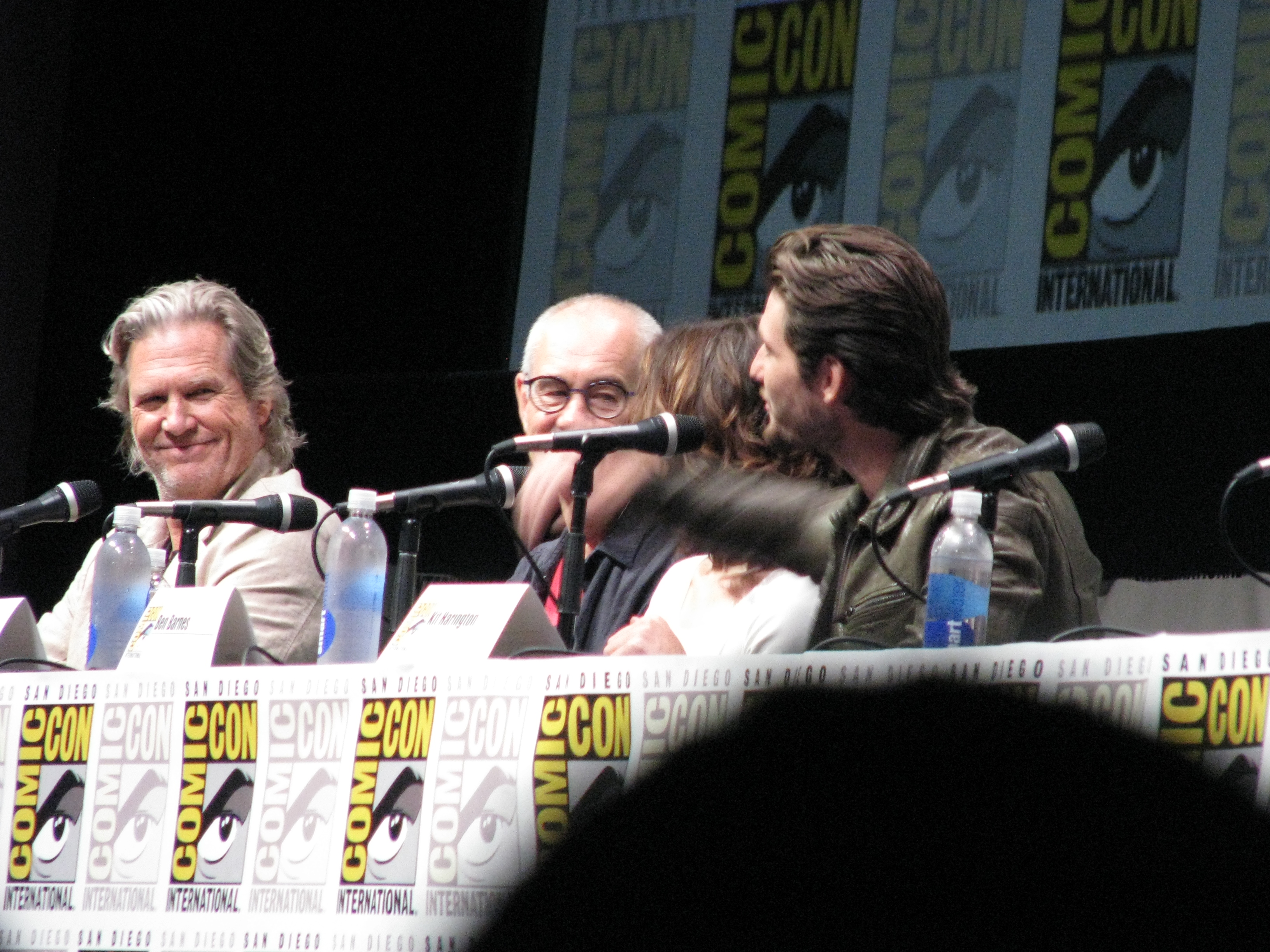 The Seventh Son panel with [from left to right] Jeff Bridges, Sergey Bodrov, Antje Traue, and Ben Barnes